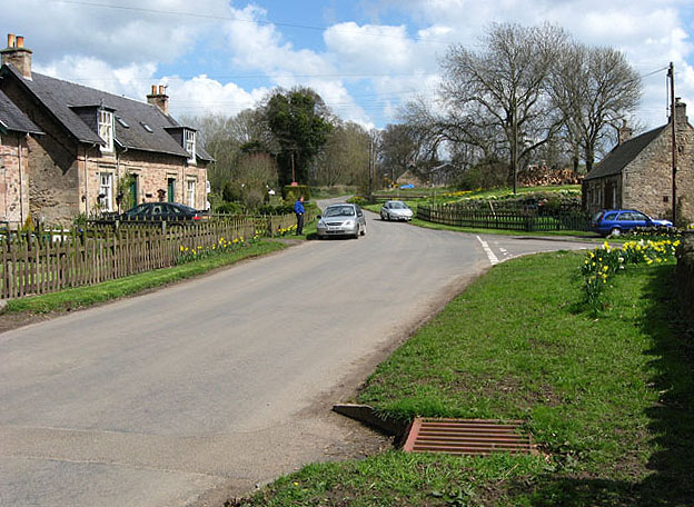 The village of Nisbet Viewed on a fine April day.